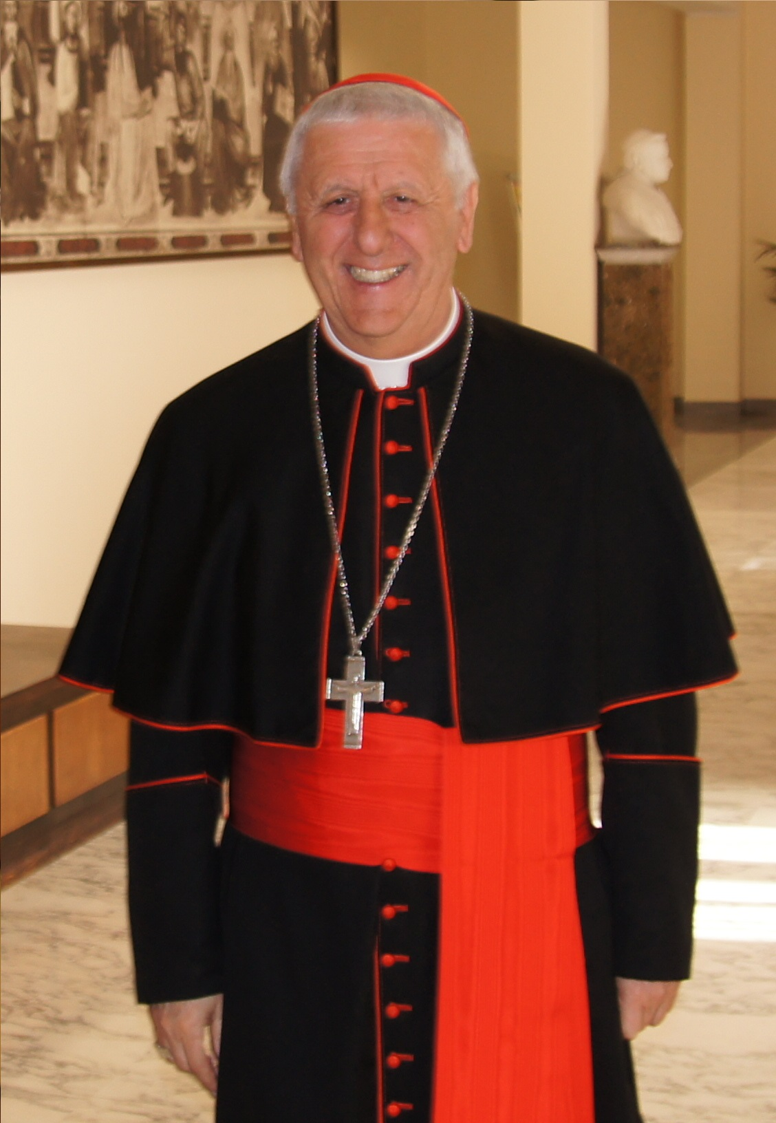 Photo of Giuseppe Cardinal Versaldi